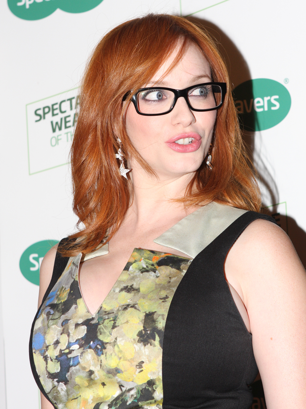 Actress Christina Hendricks Launches Spectacular model comp in Sydney 2012.